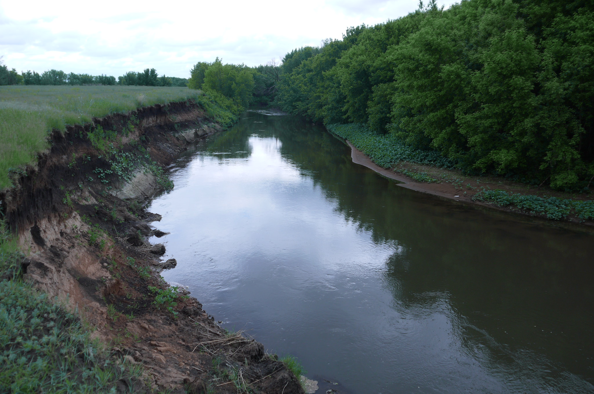 Река Ток в селе Старобогдановка